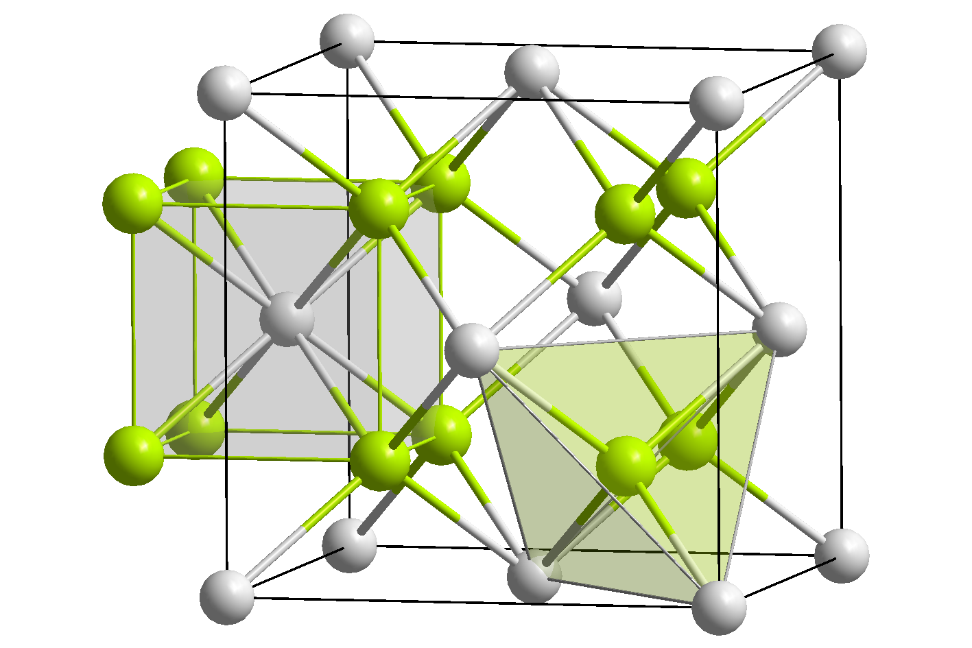 Crystal structure of CaF2 with coordination polyhedra